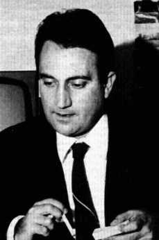 Italian journalist Emilio Fede